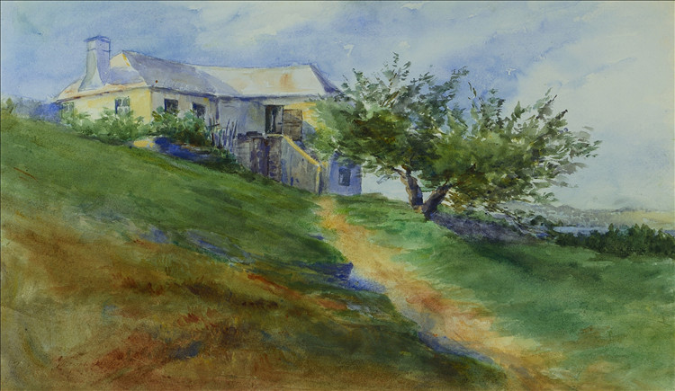 House by the Water Bermuda by Harriet Thayer Durgin